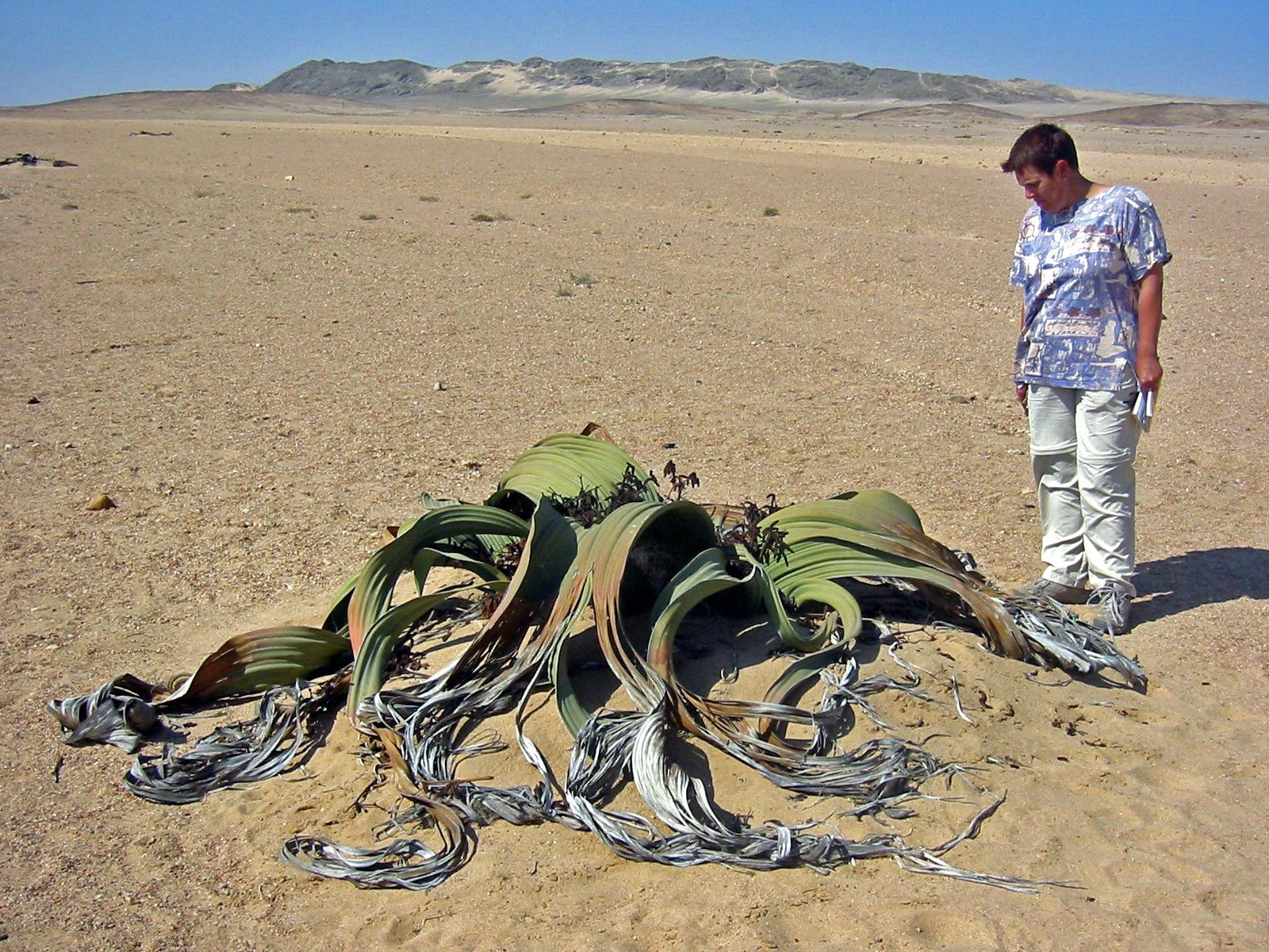 Welwitschia mirabilis, Namibia. Plant (male) and human (female) for size comparison